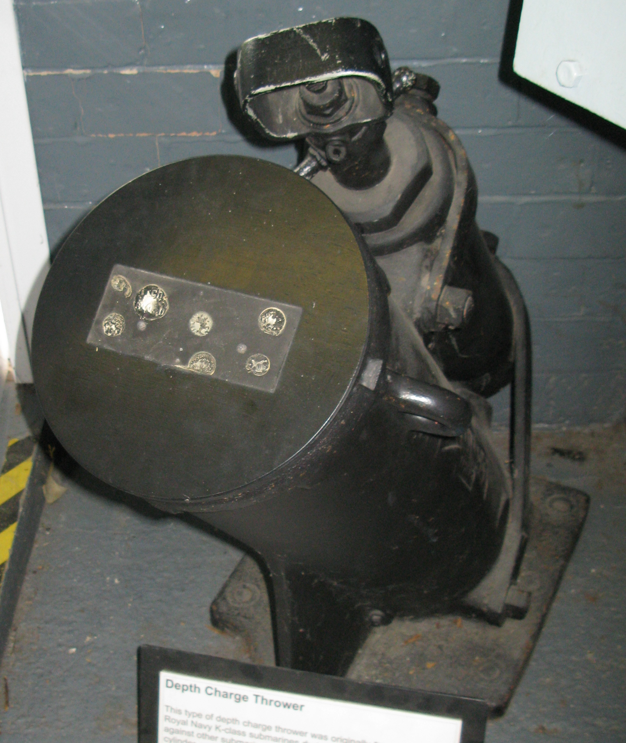 A photo of a Depth charge thrower from a british K class submarine